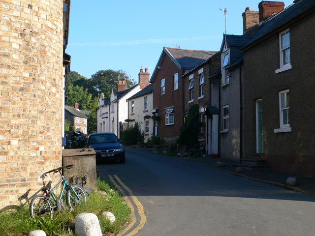 The Oswestry Road through Llansilin, near to Llansilin, Powys, Great Britain. Going northwards from the church.